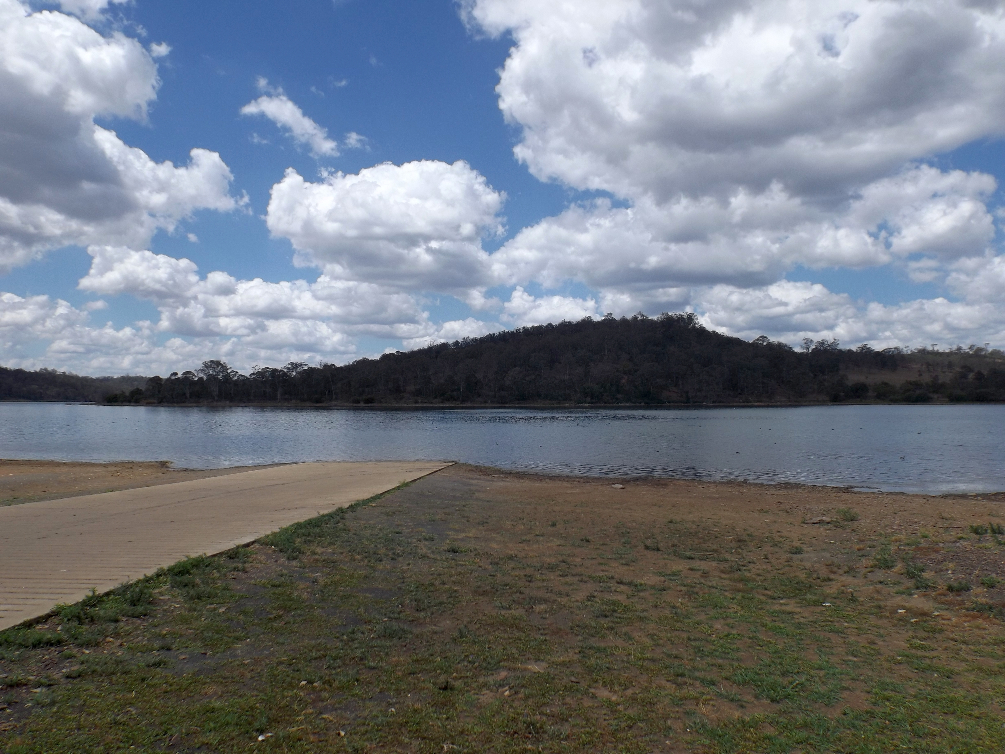 Photo of boat ramp and the water of Cooby Dam in the Toowoomba Region of the Darling Downs, Queensland, Australia.